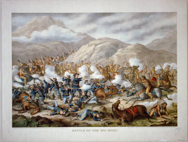 Battle of the Big Horn